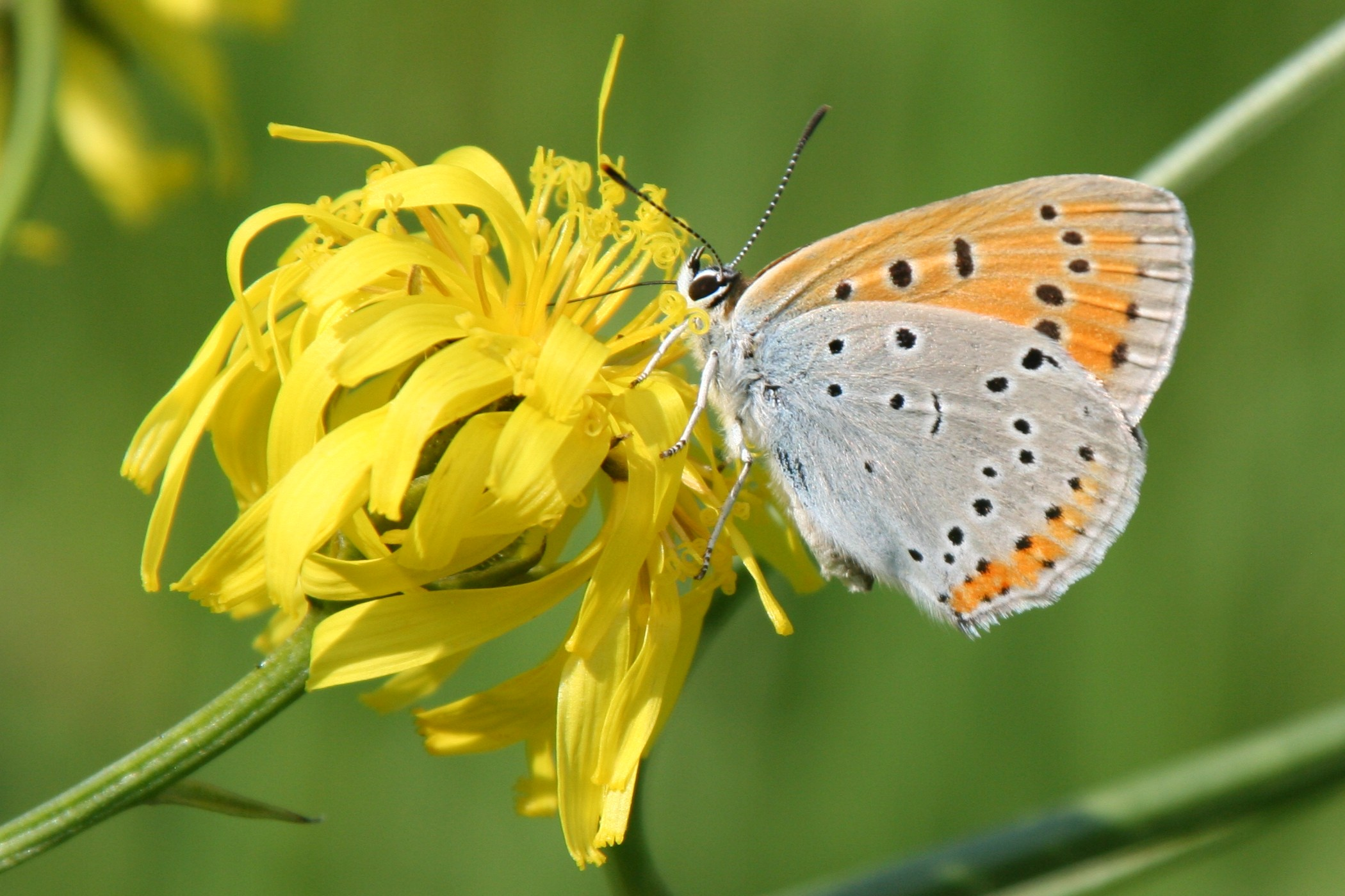 A female of the Large Copper butterfly (Lycaena dispar), photographed in Obersulm-Affaltrach on a meadow near the Sulm river